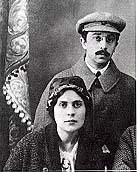 Osip and Lili Brik during their Honneymoon in 1912 (cf. B. Jangfeldt: Een leven op scherp; de legendarische dichter Vladimir Majakovski 1893-1930, Amsterdam, 2009. )